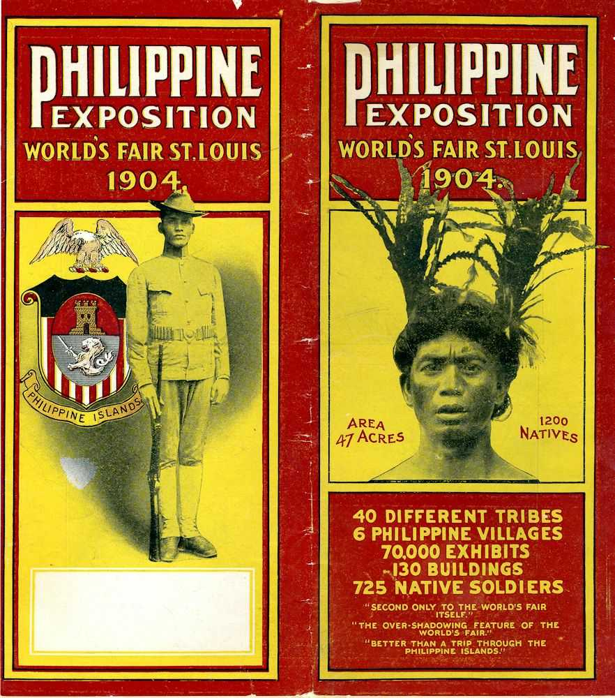 Advertisment, Philippine Exposition at World's Fair St. Louis 1904